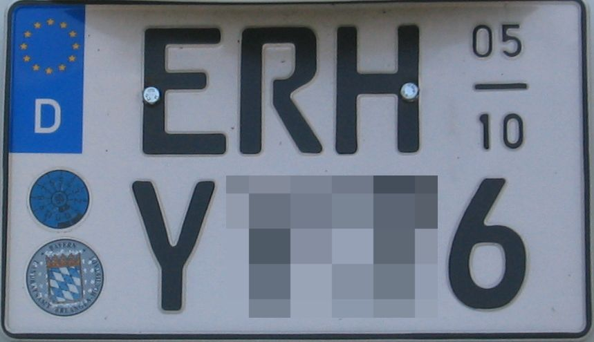 German vehicle registration plate with limited validity (Saisonkennzeichen/seasonal number plate)